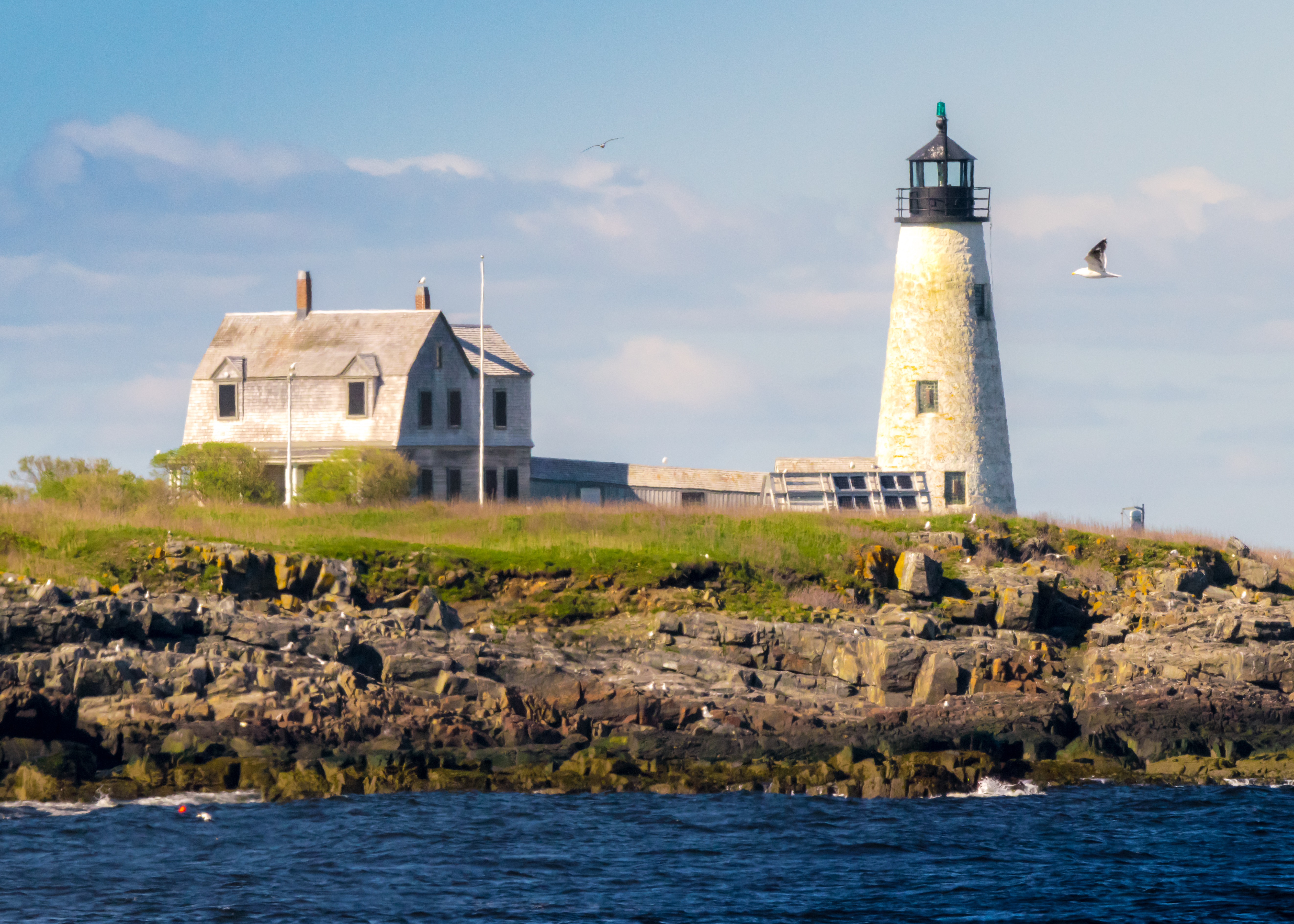 Wood Island Lighthouse in Biddeford, ME - Photo taken 5/12/2017